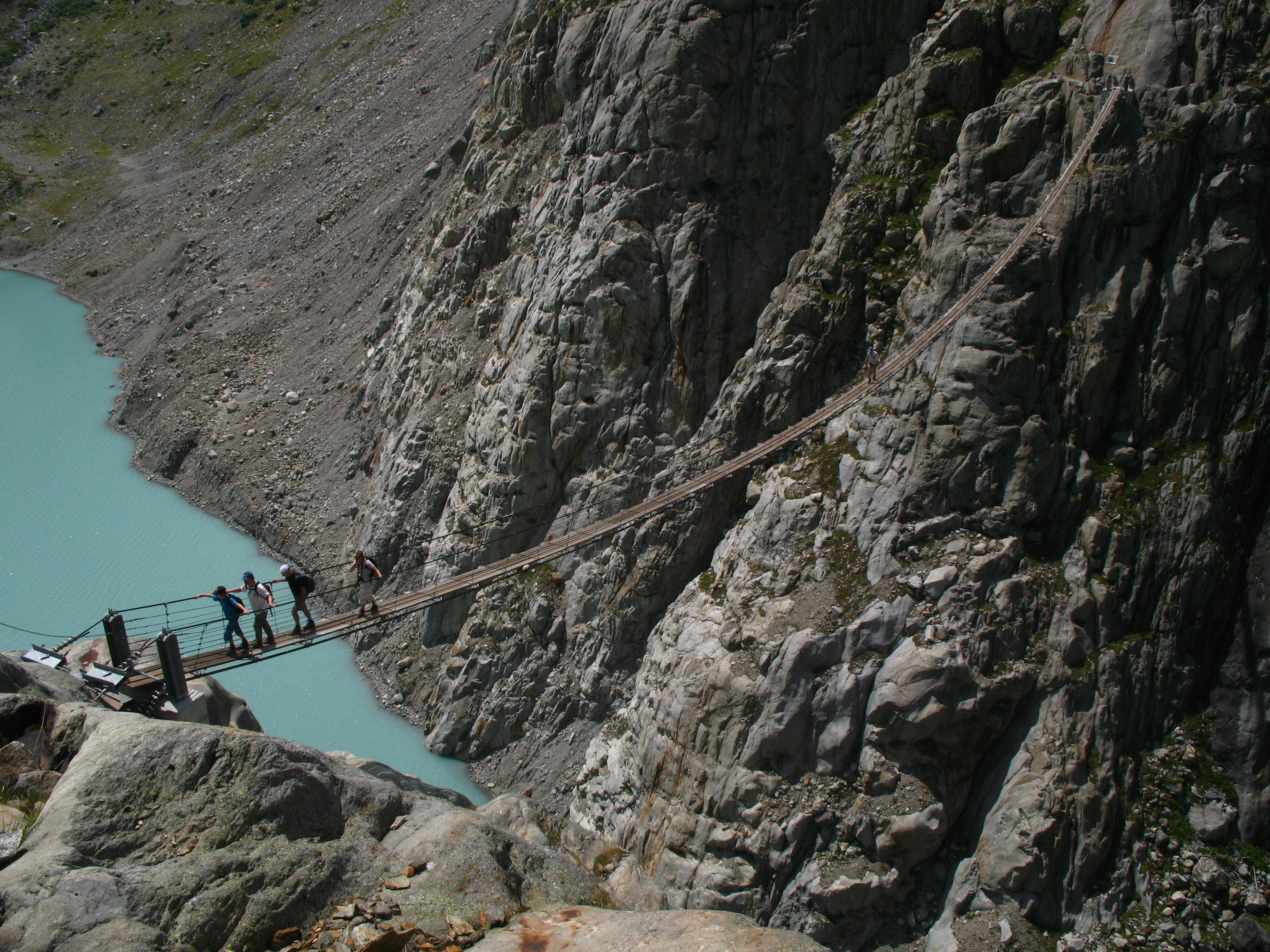 View of the Trift Bridge, Gadmen, Switzerland.